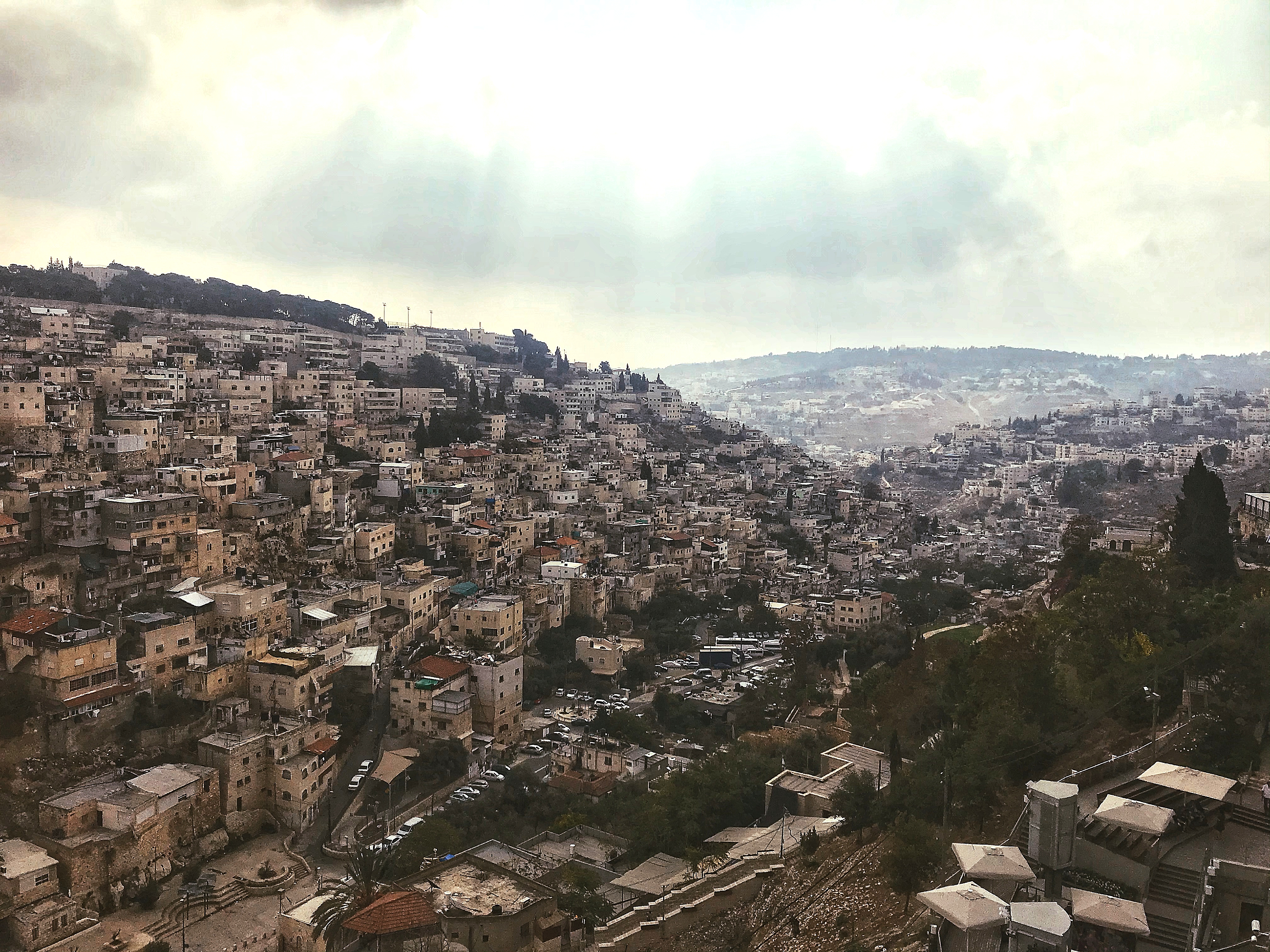 Silwan, the nearest village to Al Aqsa mosque from the south